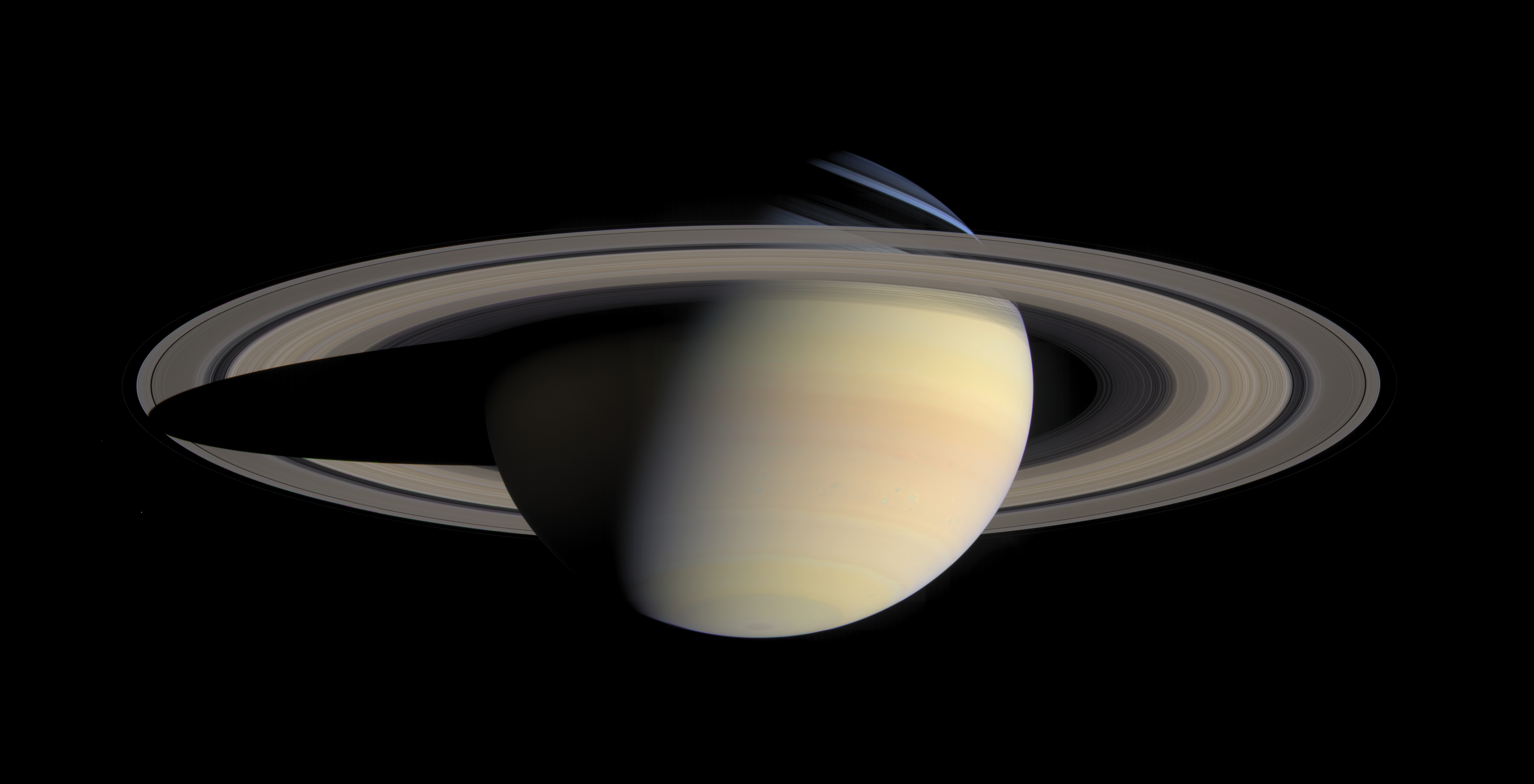 While cruising around Saturn in early October 2004, Cassini captured a series of images that have been composed into the largest, most detailed, global natural color view of Saturn and its rings ever made. This grand mosaic consists of 126 images acquired in a tile-like fashion, covering one end of Saturn's rings to the other and the entire planet in between. The images were taken over the course of two hours on Oct. 6, 2004, while Cassini was approximately 6.3 million kilometers (3.9 million miles) from Saturn. Since the view seen by Cassini during this time changed very little, no re-projection or alteration of any of the images was necessary. Three images (red, green and blue) were taken of each of 42 locations, or "footprints," across the planet. The full color footprints were put together to produce a mosaic that is 8,888 pixels across and 4,544 pixels tall. The smallest features seen here are 38 kilometers (24 miles) across. Many of Saturn's splendid features noted previously in single frames taken by Cassini are visible in this one detailed, all-encompassing view: subtle color variations across the rings, the thread-like F ring, ring shadows cast against the blue northern hemisphere, the planet's shadow making its way across the rings to the left, and blue-grey storms in Saturn's southern hemisphere to the right. Tiny Mimas and even smaller Janus are both faintly visible at the lower left. The Sun-Saturn-Cassini, or phase, angle at the time was 72 degrees; hence, the partial illumination of Saturn in this portrait. Later in the mission, when the spacecraft's trajectory takes it far from Saturn and also into the direction of the Sun, Cassini will be able to look back and view Saturn and its rings in a more fully-illuminated geometry.